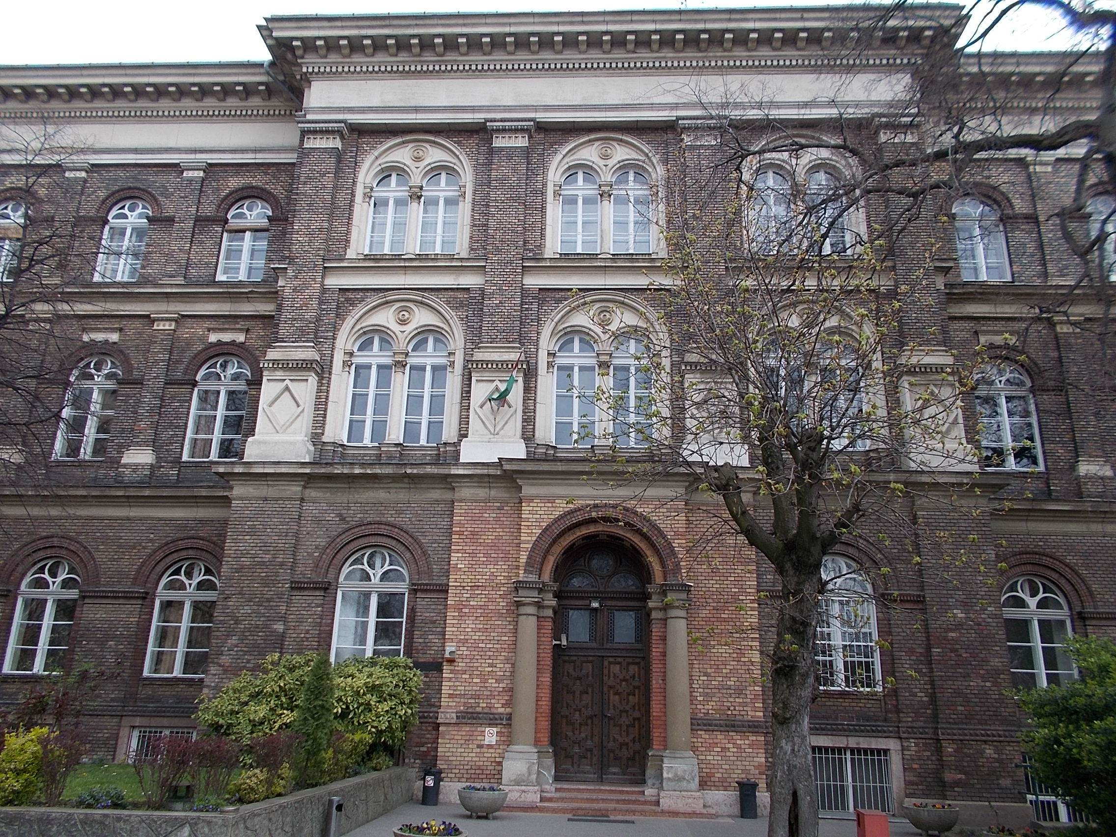 McDaniel College Budapest Campus. - 2 Bethlen Gábor Square, Budapest District VII.